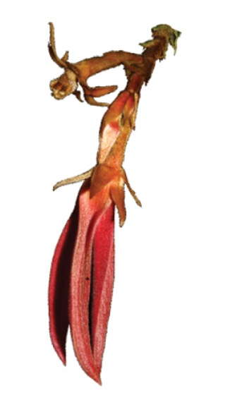 Piptostigma multinervium Engl. & Diel flower